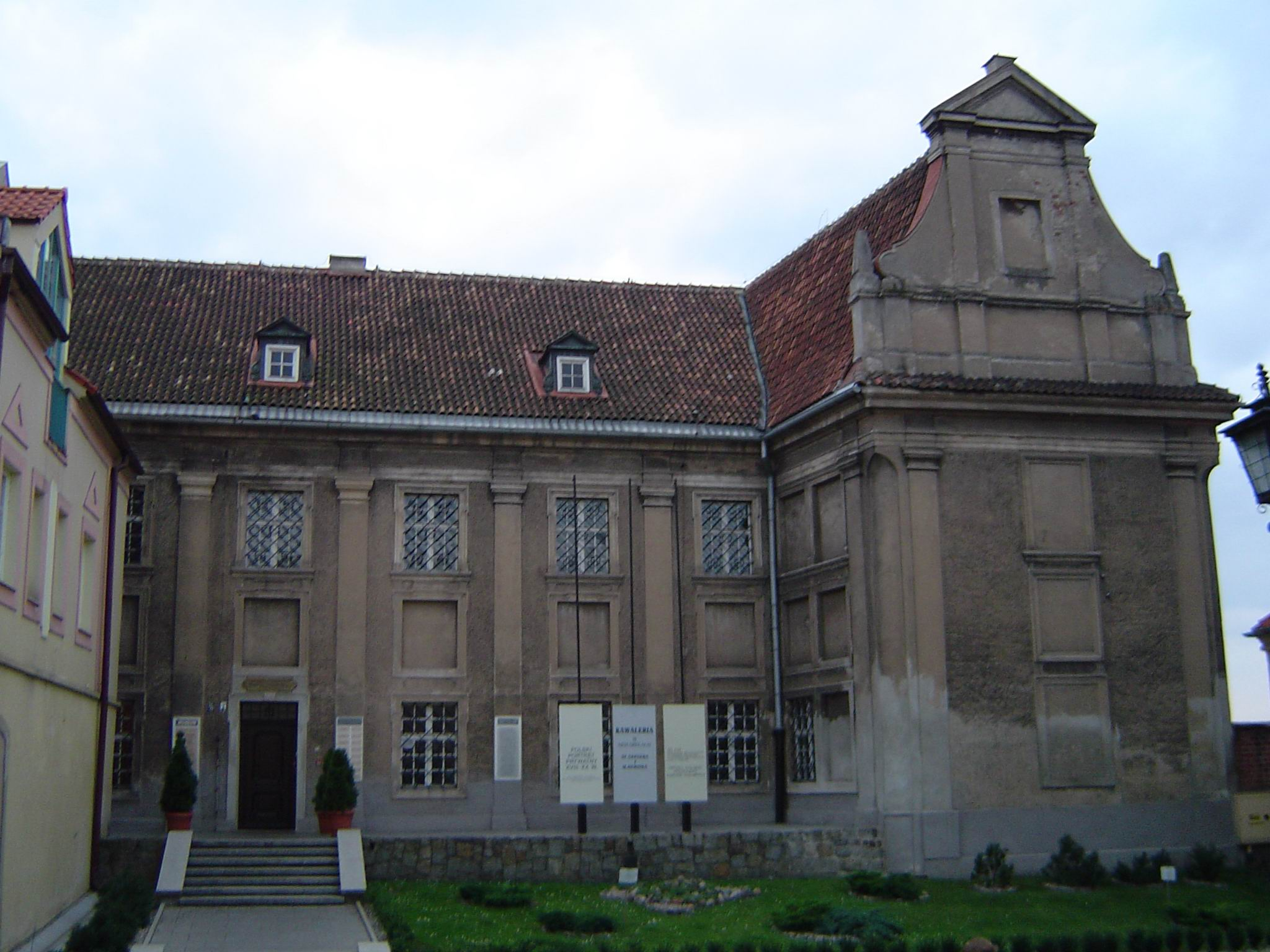 Museum in Grudziądz, former Benedictine convent